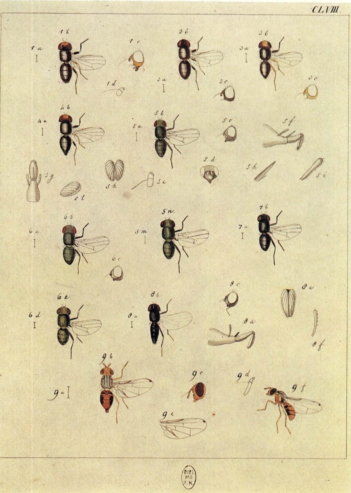 Abbildung der europäischen zweiflügeligen Insekten nach der Natur Von Joh. Wilh. Meigen zu Stolberg bei Aachen 1 Taf CLVII text [ continued here File:EuropäischenZweiflügeligen1790TafCLIX-CLXIIText.jpg Valid names and synonyms at Catalogue of Life (Annual Checklist)and Nomenclator.Types at MNHN collections database Note Europäischen Zweiflügeligen includes species described by previous authors - Linnaeus, Fallen, Wiedemann, Fabricius, Scopoli, Forster, Rossi, Macquart, Robert etc. Dacus oleae (Rossi, 1790) synonym of Bactrocera oleae (Rossi, 1790)